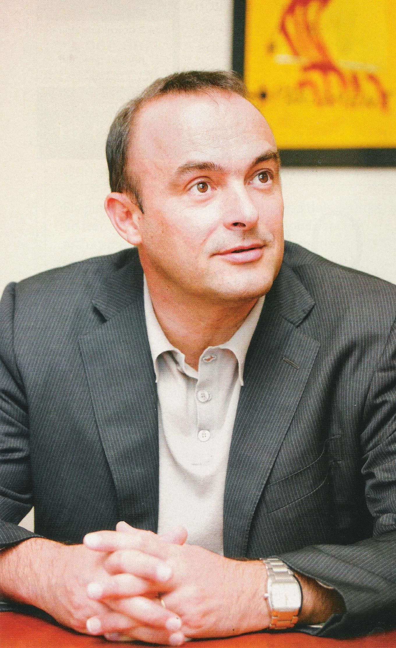 Jaume Oliveras i Maristany